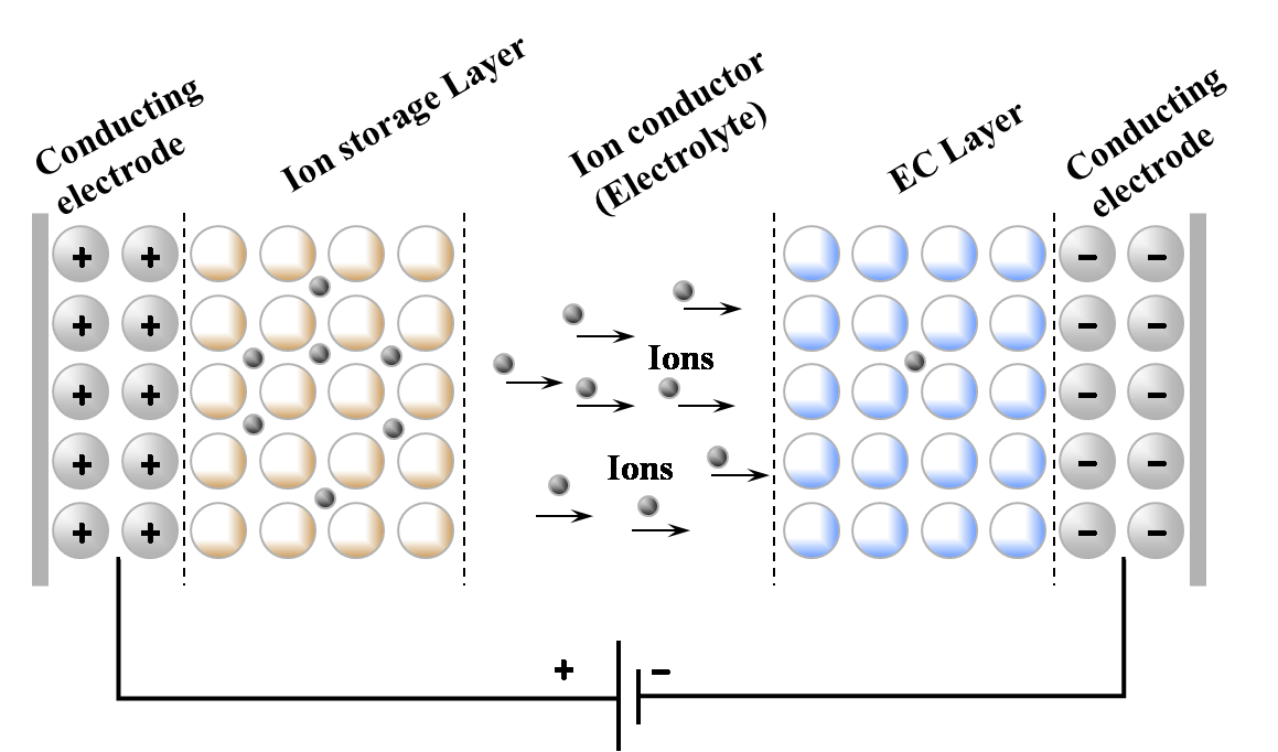 The solid state ECD structure may have five layers, i.e. (transparent conducting oxide (TCO) layer / ion-storage layer (IS) / ion conducting layer (electrolyte) / EC layer / TCO layer, superimposed on one substrate or may be positioned between two substrates in the laminate configuration